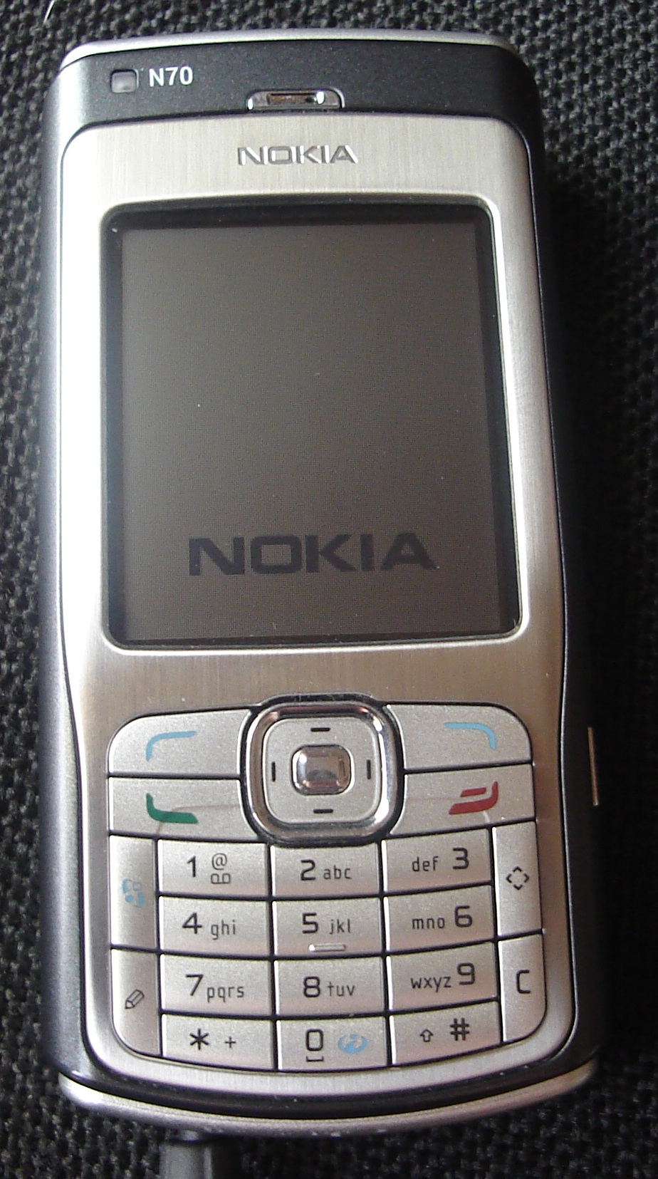 Picture of my Nokia N70-5 (non-3g version)